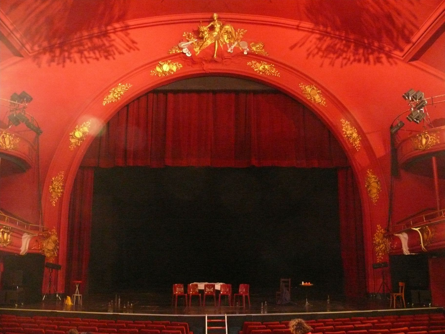 The theater Sebastopol in Lille seen from inside (Nord, France).